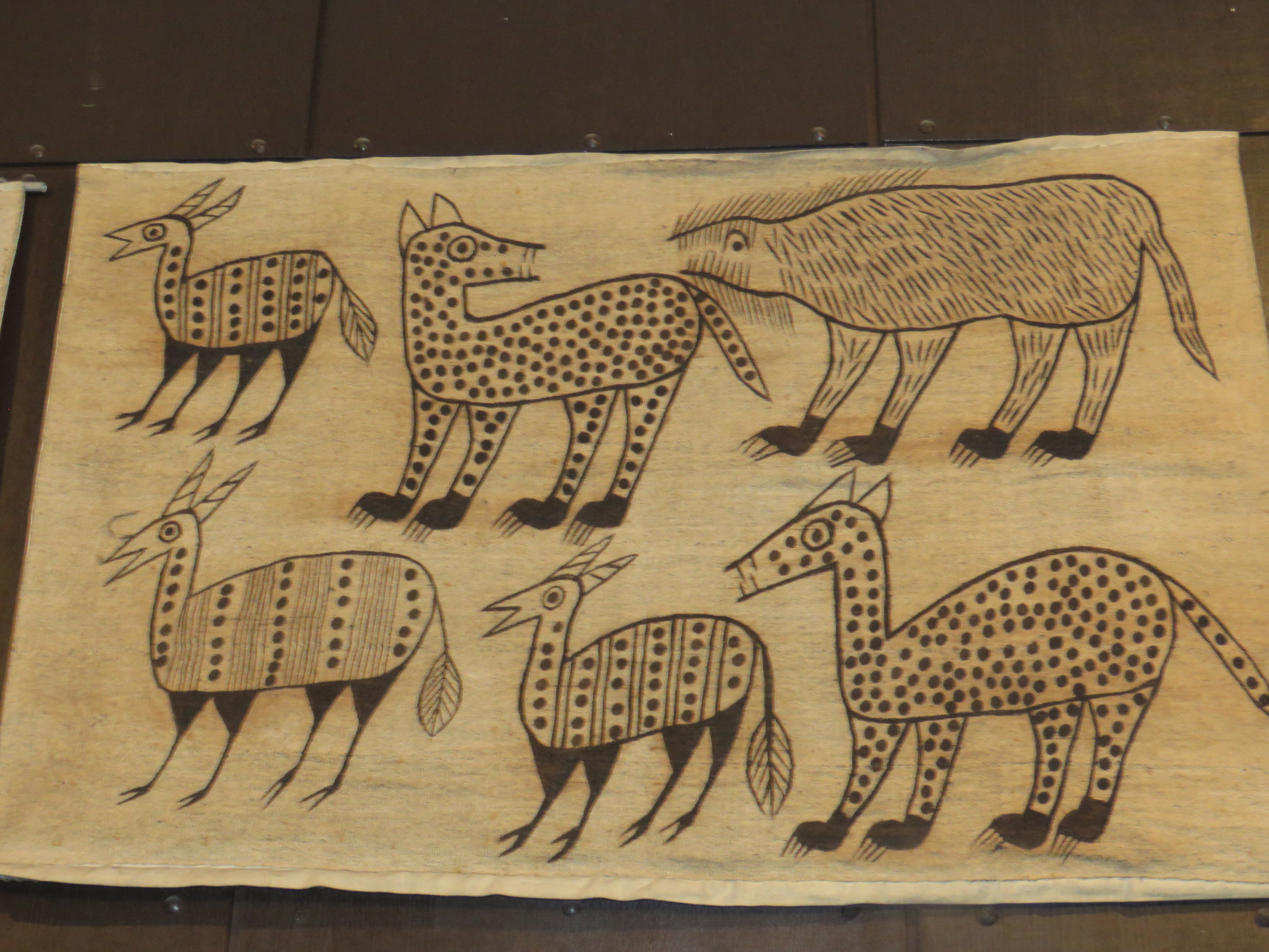 Korhogo cloth, Senufo people, Ivory Coast